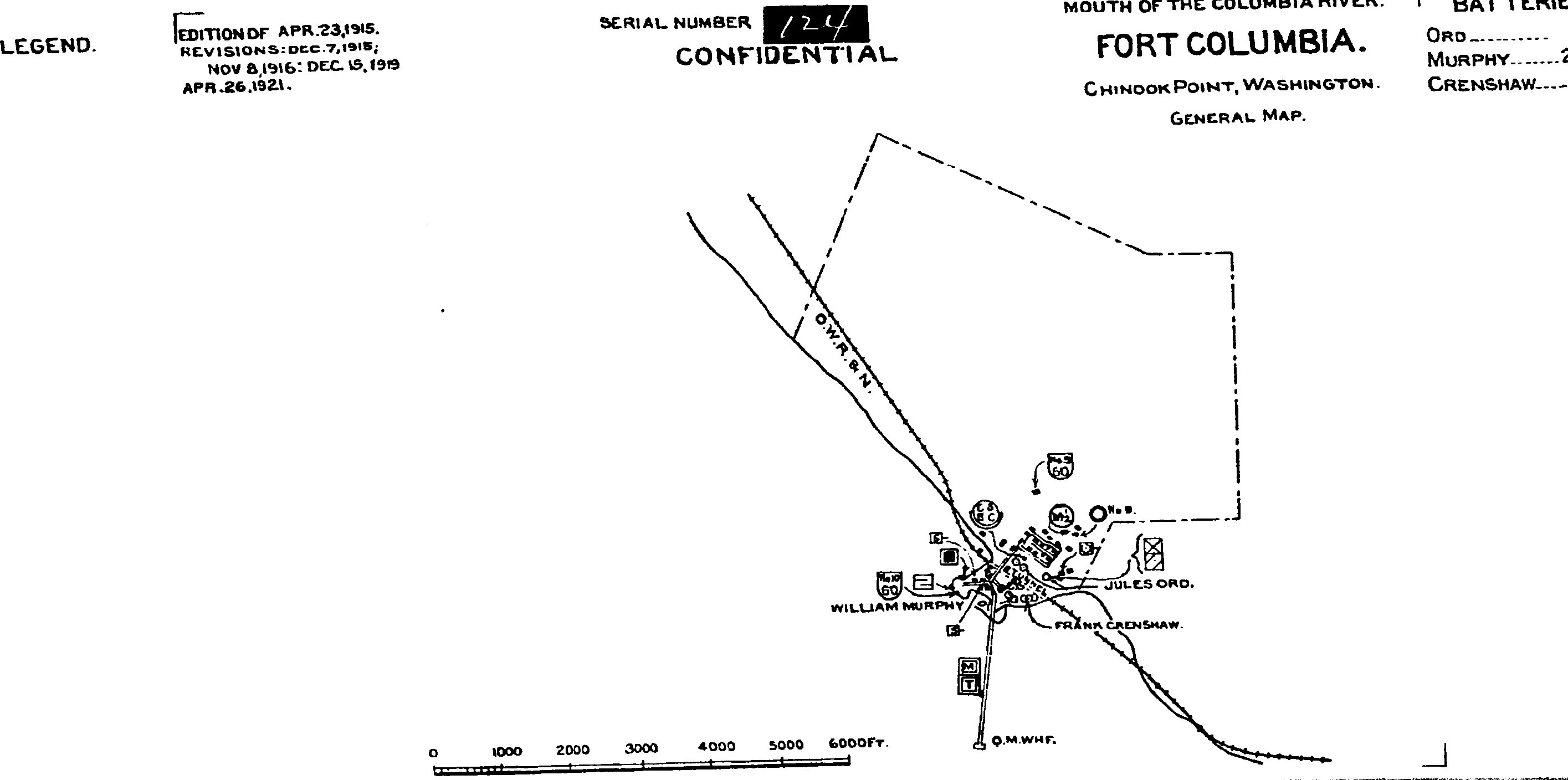 Scan of map prepared by U.S. Army Corps of Engineers in 1921, showing Fort Columbia near Chinook, Washington. This is part of a whole series of U.S. army-prepared maps scanned by Coast Defense Studies Group some of which are available, as this one was, on their website, in .PDF format, and over which they assert no copyright, other to charge a small fee for CDs of maps not available on-line.